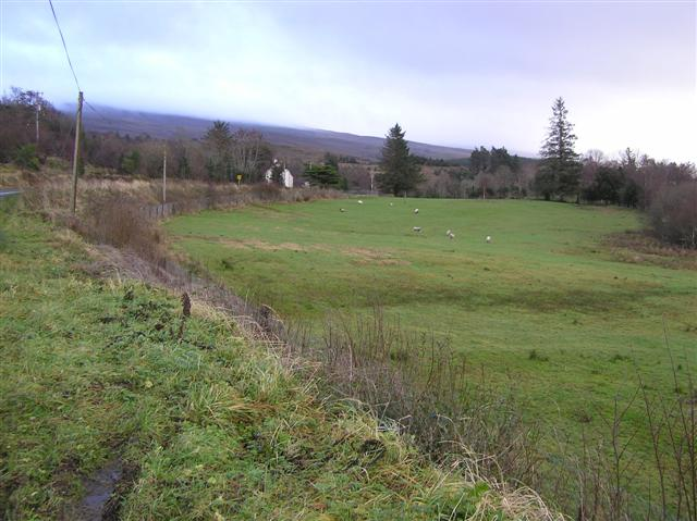 Drumhurrin Townland Looking south-east